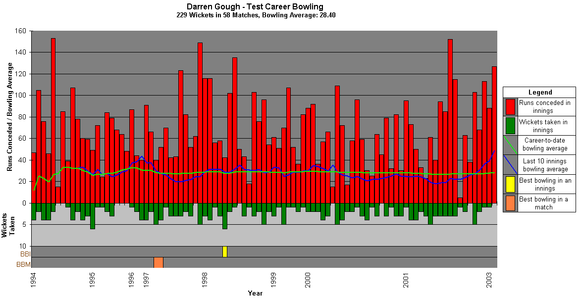 A graph that shows Darren Gough's test career bowling statistics and how they have varied over time. This image was created using Microsoft Excel and MS Paint. This graph is up to date as of 10th August 2007.